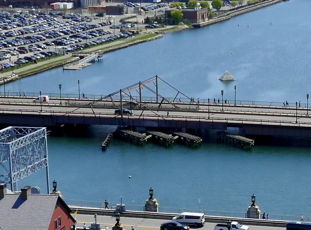 Aerial view of the Summer Street Bridge in Fort Point Channel in 2016